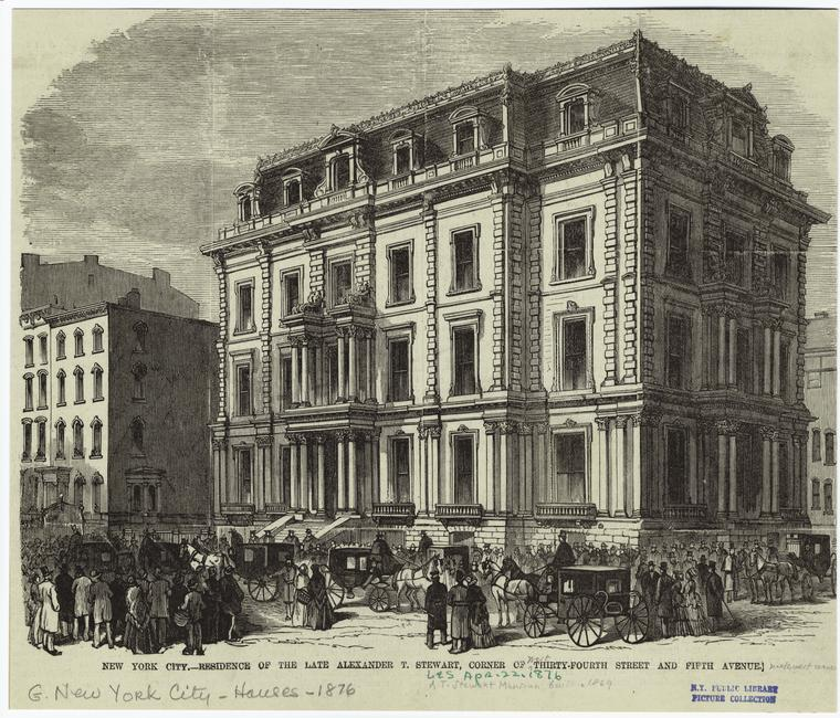 Alexander Turney Stewart (1803-1876) New York City Residence built 1869-70 on northeast corner of Fifth Avenue and 34th Street.